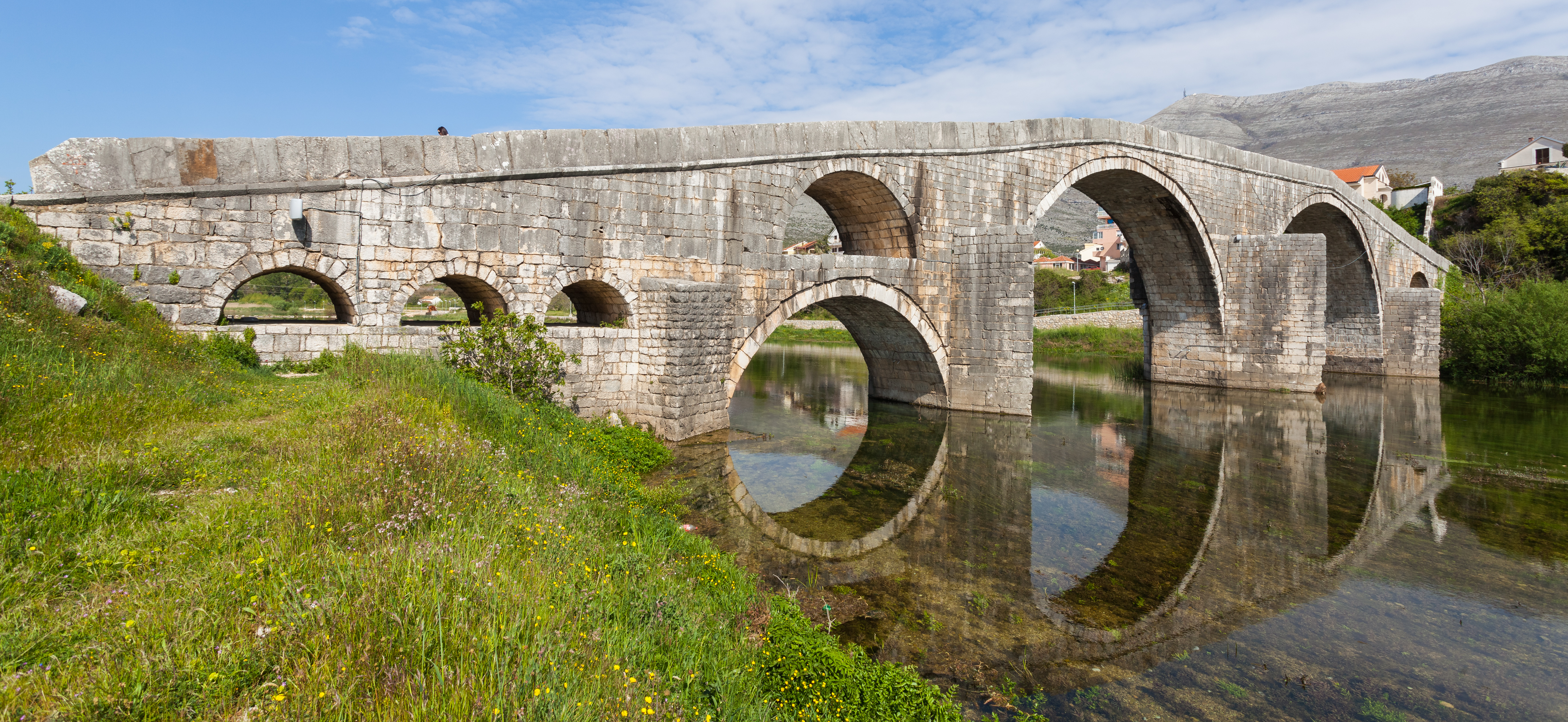 Arslanagić bridge, Trebinje, Bosnia and Herzegovina